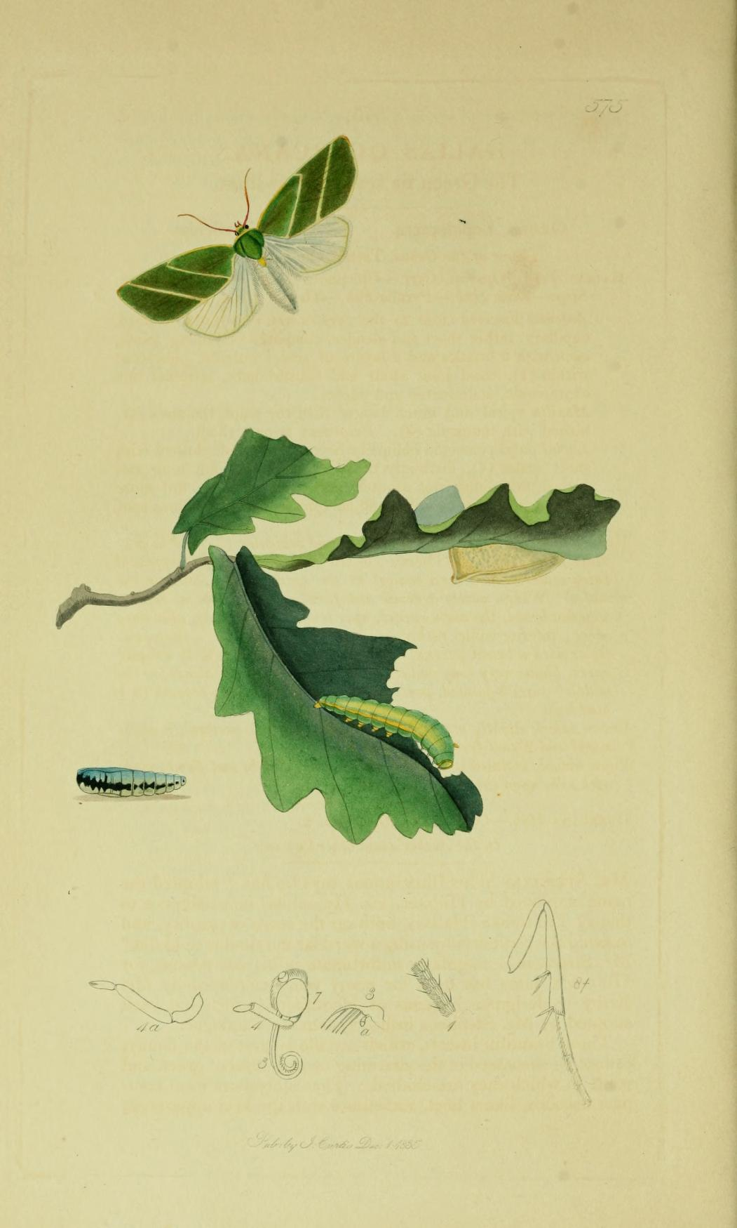 An illustration from British Entomology by John Curtis. Lepidoptera: Halias quercana or Pseudoips fagana (Green Silver Lines)Valid name prasinana?